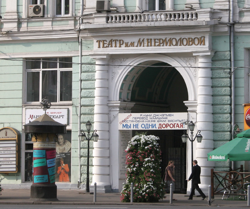 Moscow Drama Theater Ermolovoy